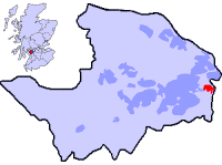 Locator map for Ralston, Renfrewshire